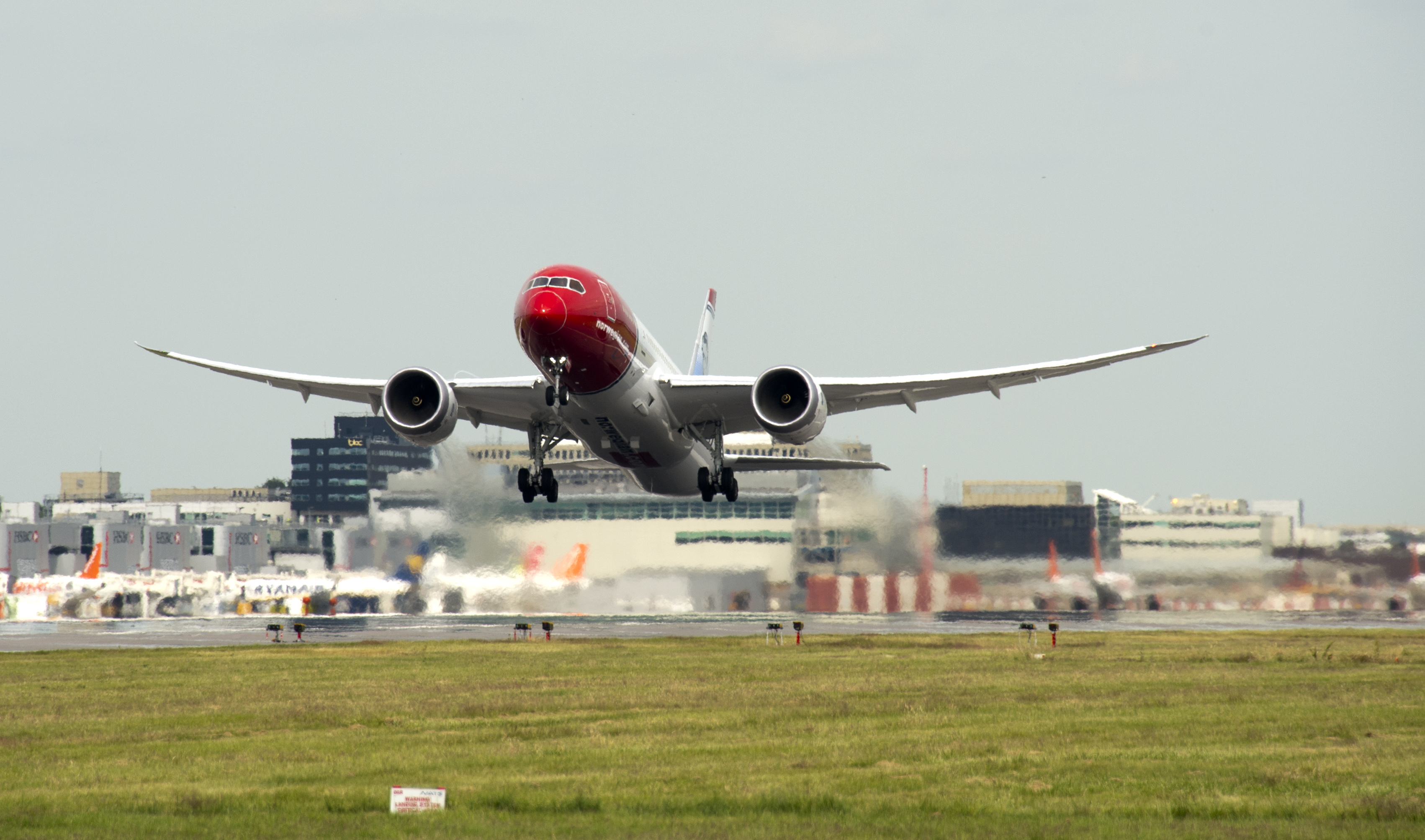 Norwegian's 787 Dreamliner at London Gatwick